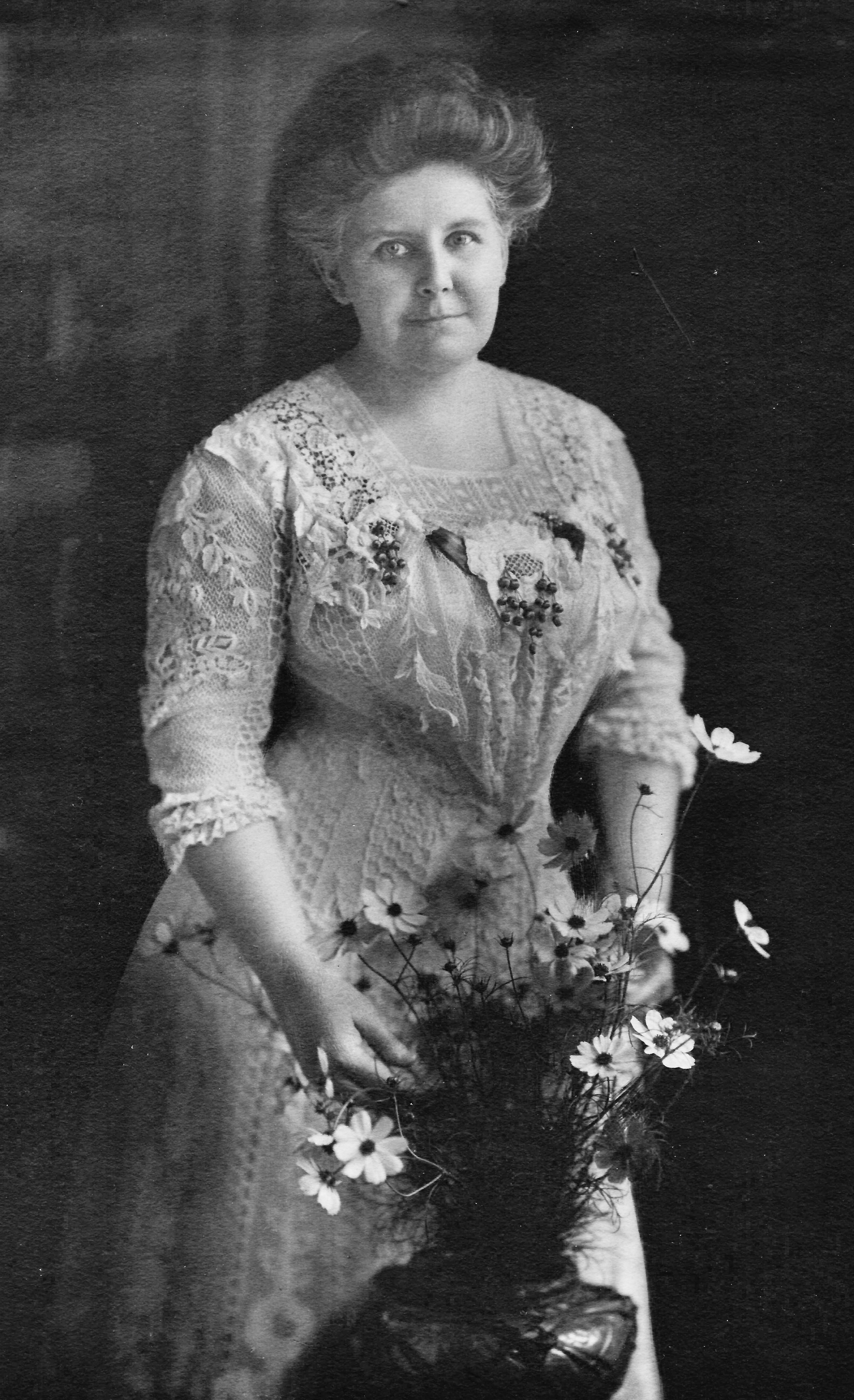 This is a picture of Lilly Reid Boisot after she was married. This is the only copy, when she was living in Chicago, Illinois in 1920. The photographer was William L. Koehne of Chicago.